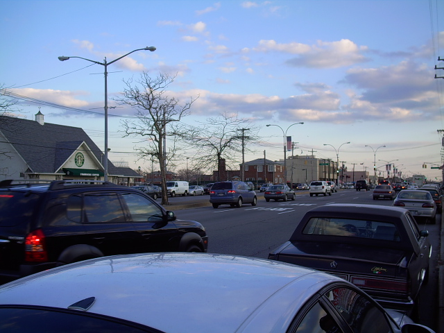 Cross Bay Boulevard in Howard Beach, Queens NY.